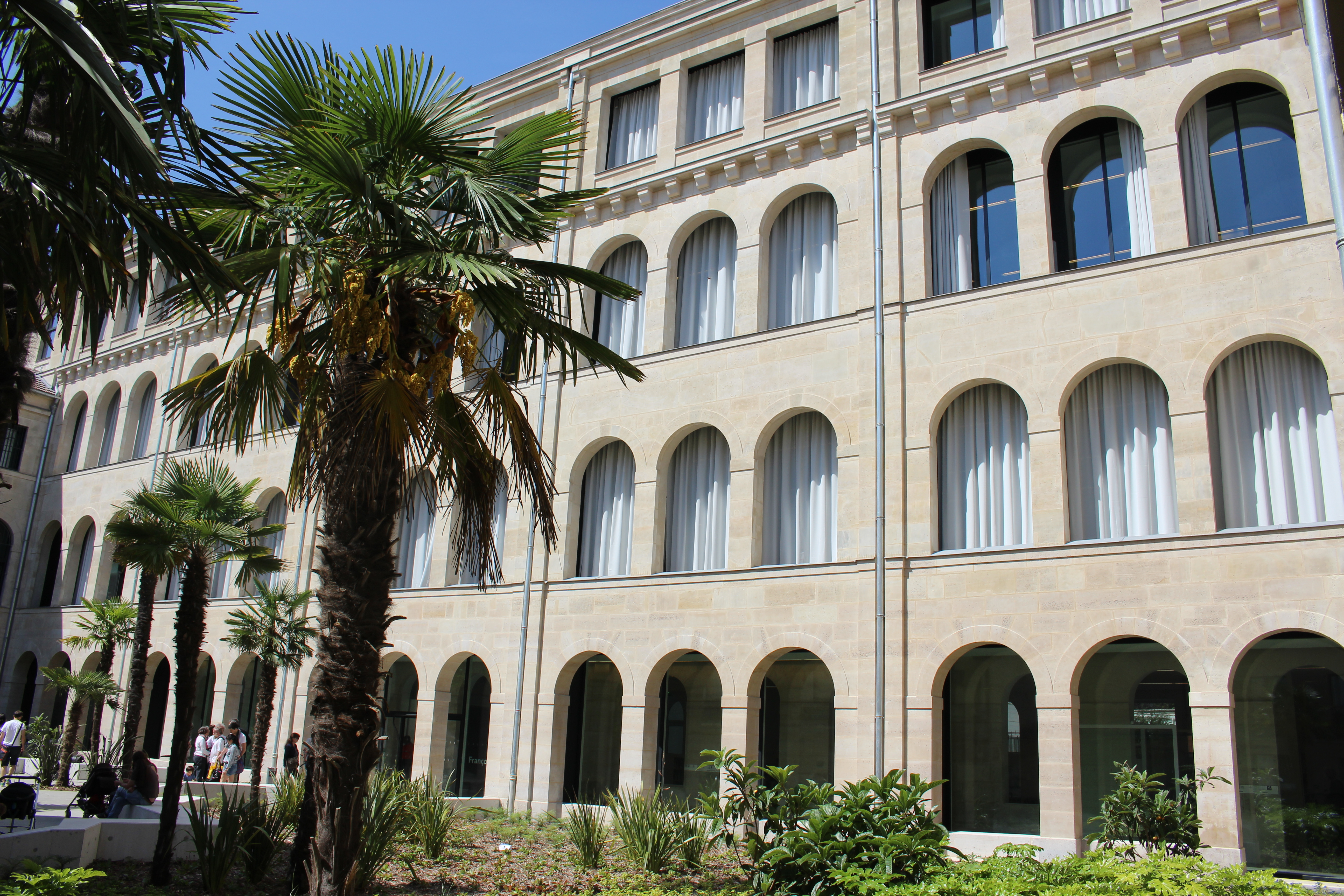 Françoise Sagan Library, 8 Rue Léon-Schwartzenberg, 75010 Paris, France.